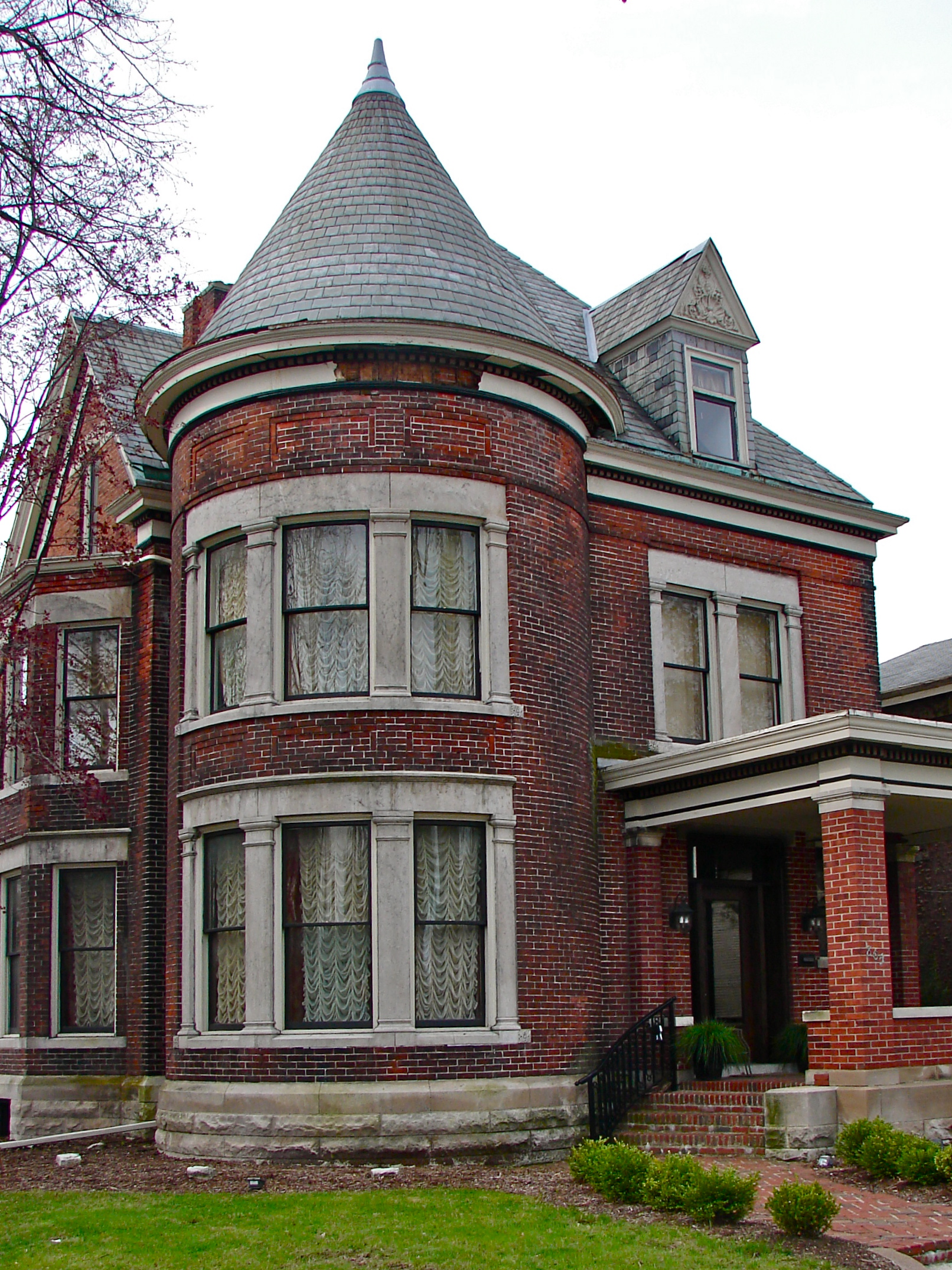 House in the West End Historic District in Ft. Wayne, IN, on the NRHP since November 15, 1984. The district is roughly bounded by Main, Webster, Jefferson, Broadway, Jones, and the St. Marys River in Fort Wayne. This house is at the corner of Van Buren and Wayne